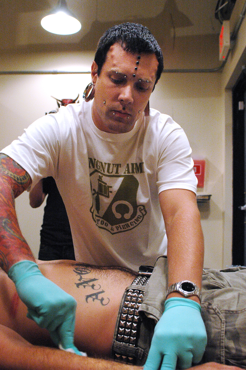 Post preps, sterilizes and marks each area before piercing. Joel Wirz of Good Clean Fun in Monticello assisted.